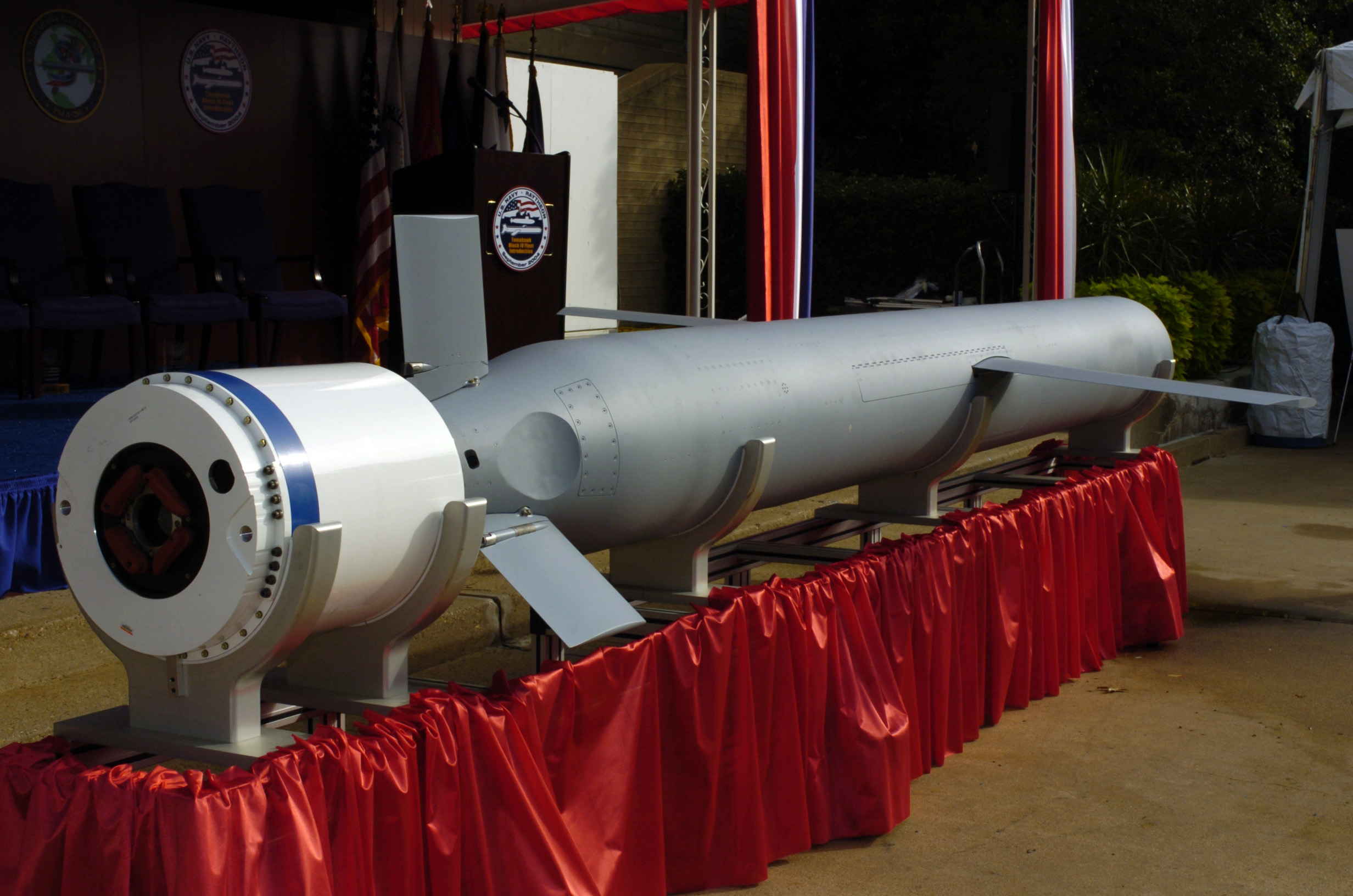 BGM-109 Block IV Tactical Tomahawk presentation